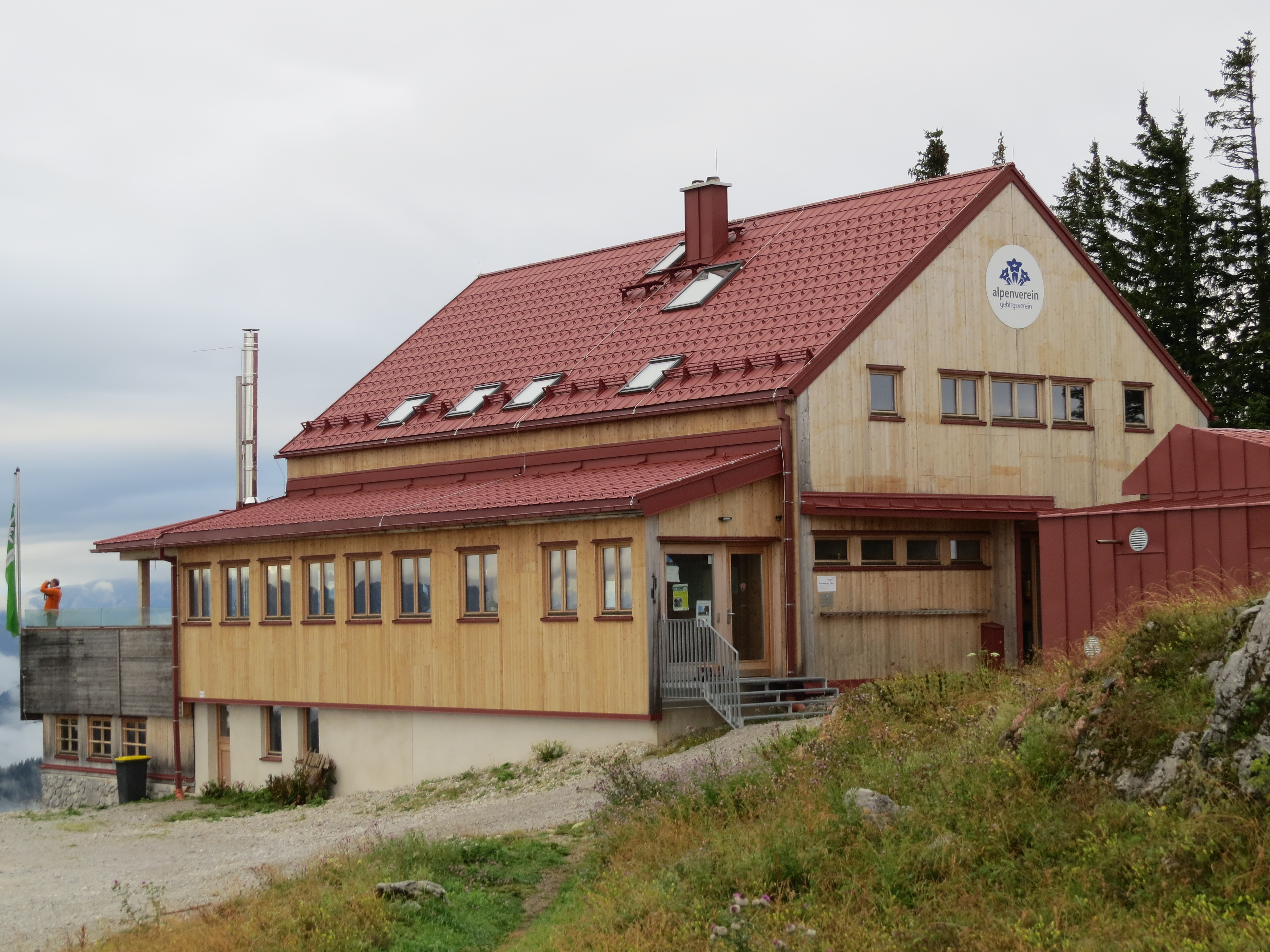 Annaberger Haus at Tirolerkogel, Annaberg, Austria.